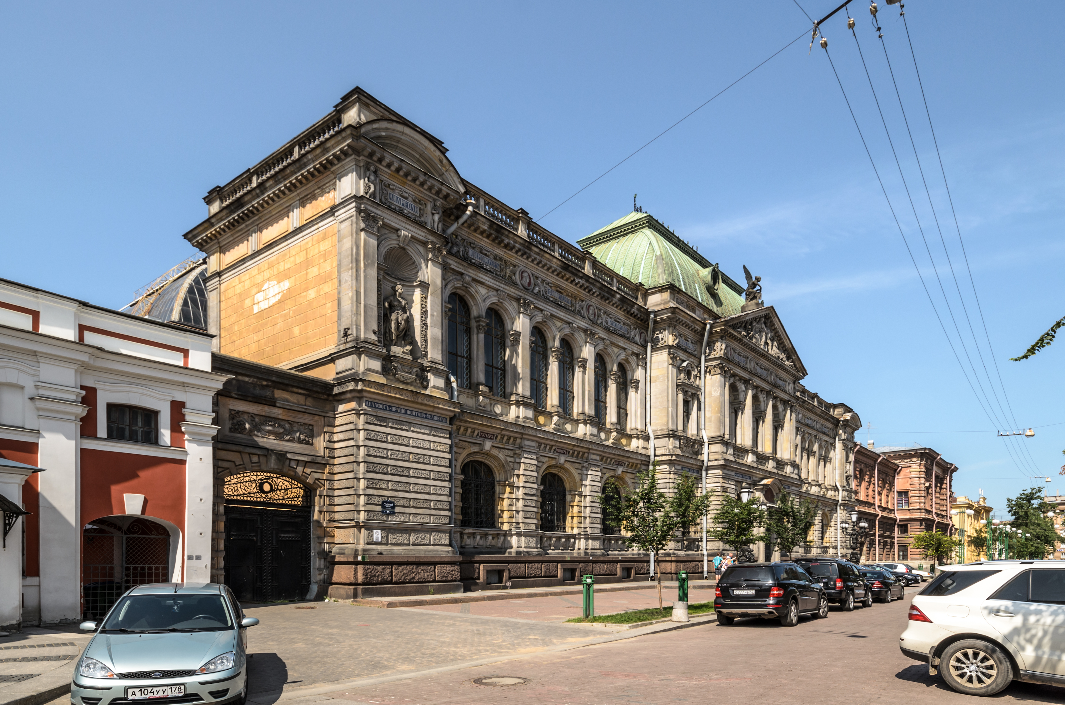 Alexander von Stieglitz Saint Petersburg State Art and Industry Academy